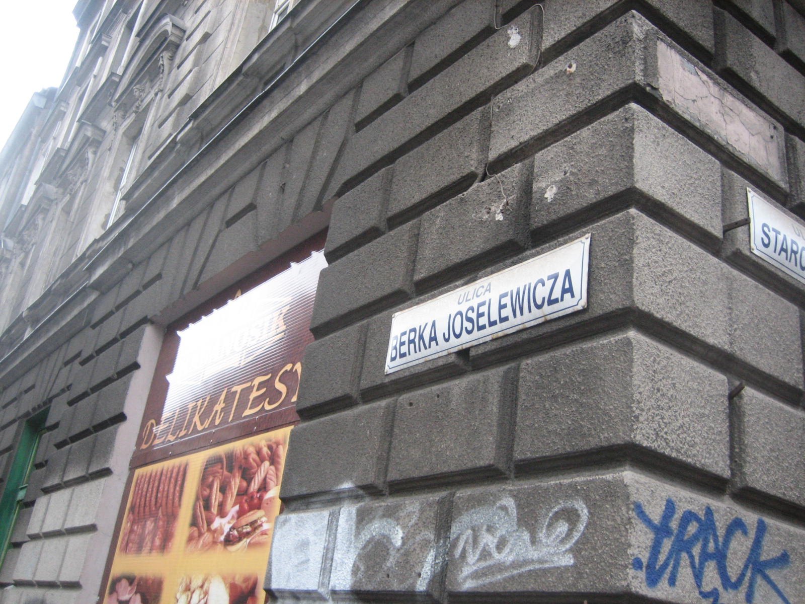 Sogn of Berek Yoselewicz street in Krakow